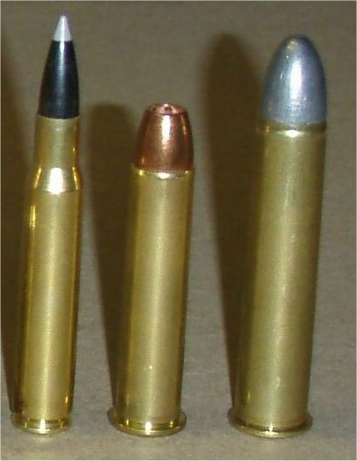 Sample firearms rifle cartridges for (left to right) .30-06 Springfield, .45-70 Government, .50-90 Sharps